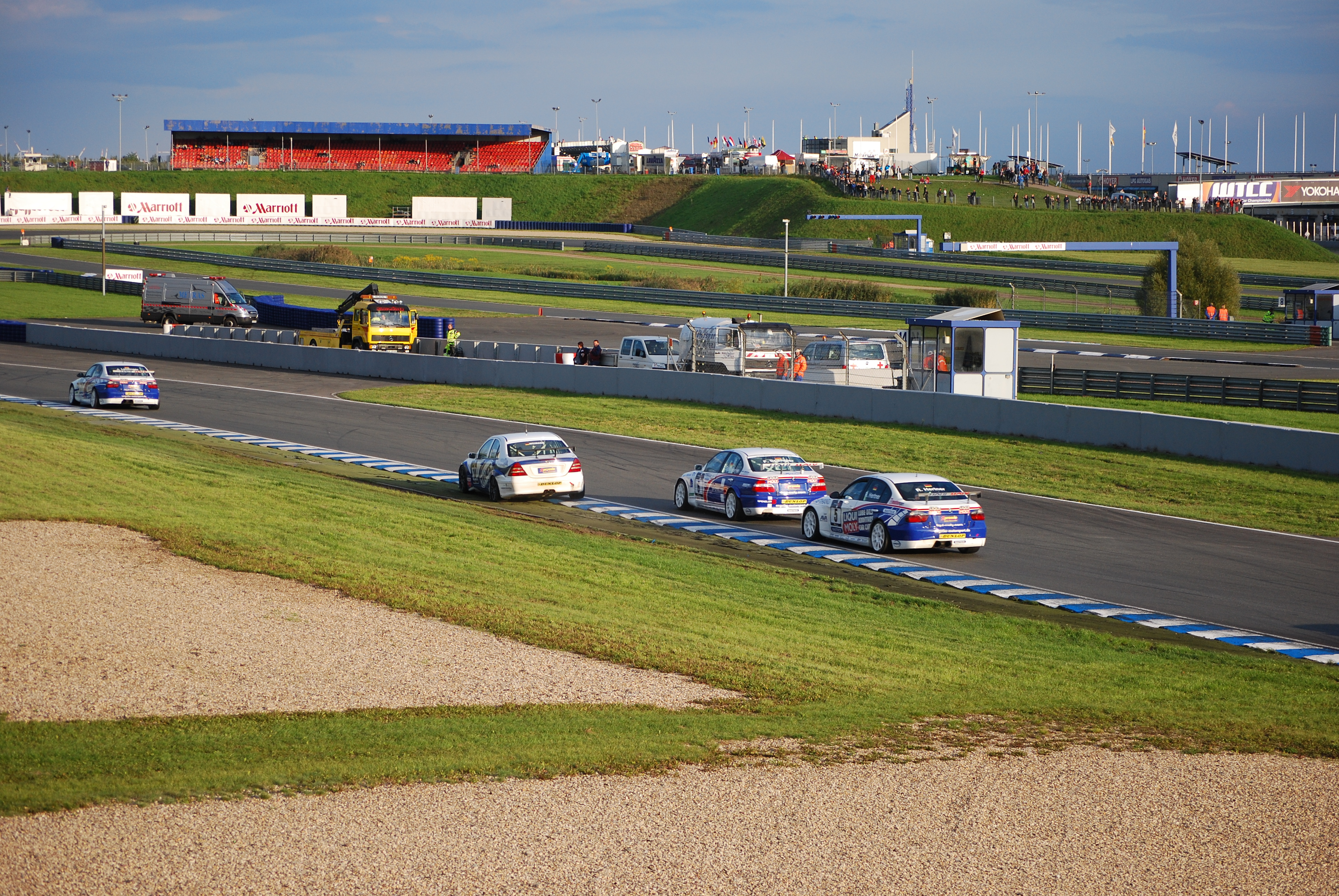 part of the Super 2000 class of ADAC Procar at Oschersleben.